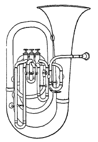 Tuba